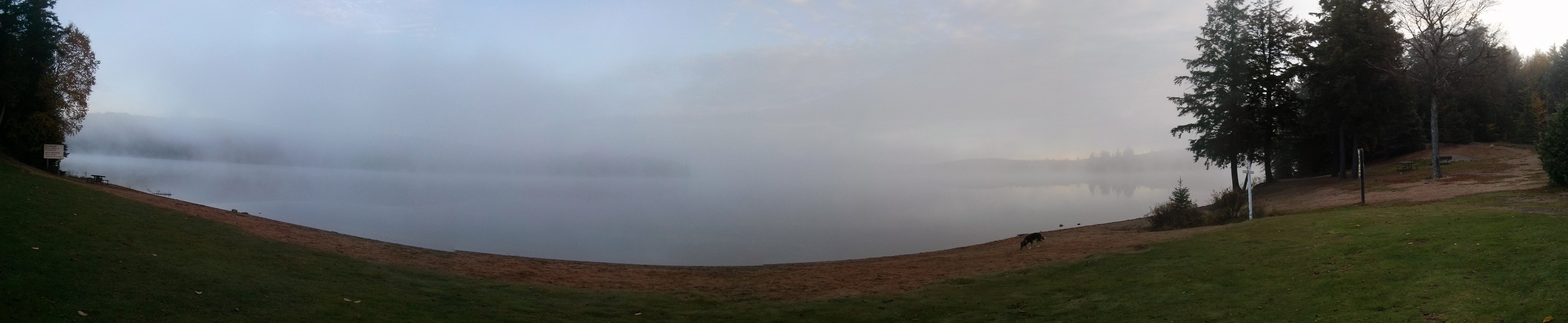 Canisbay Lake during Sunrise, Autumn 2014